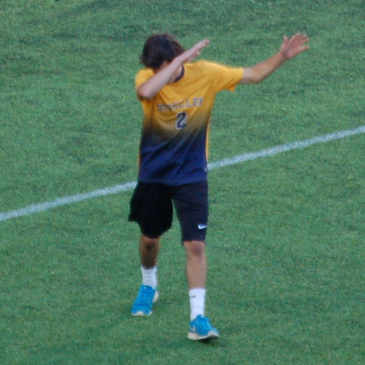 A high school soccer player participating in a halftime event does the dab after scoring a goal. Taken during a match between FC Cincinnati and Toronto FC II at Nippert Stadium in Cincinnati on June 18, 2016.